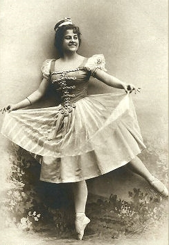 Cropped version of a Photograph of the Danish ballerina Valborg Borchsenius on a postcard titled Valborg Guldbransen i "Coppelia"